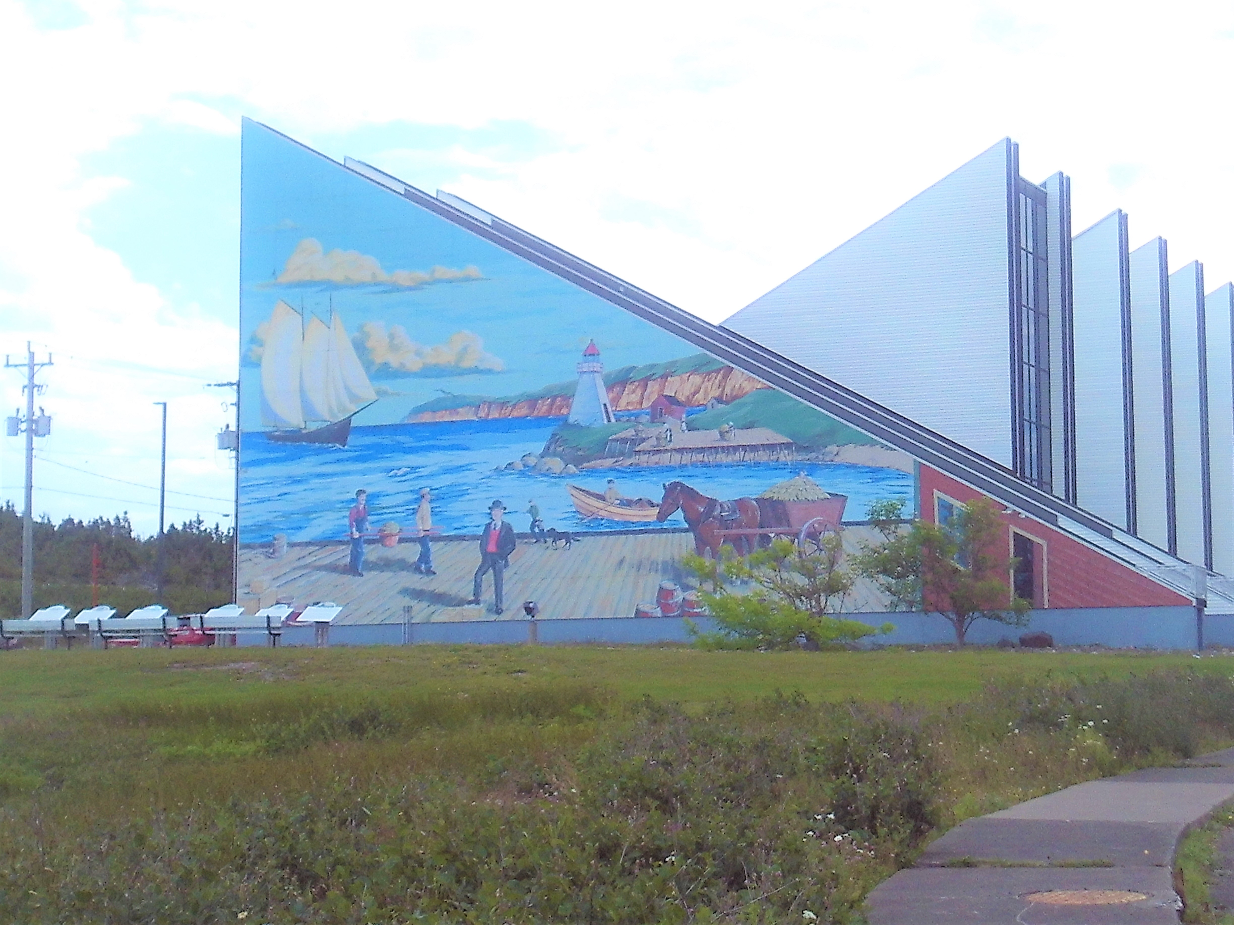 Seamen's Museum - Grand Bank, NL